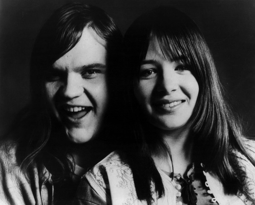 Photo of the music group Meatloaf and Stoney (Shaun Murphy).